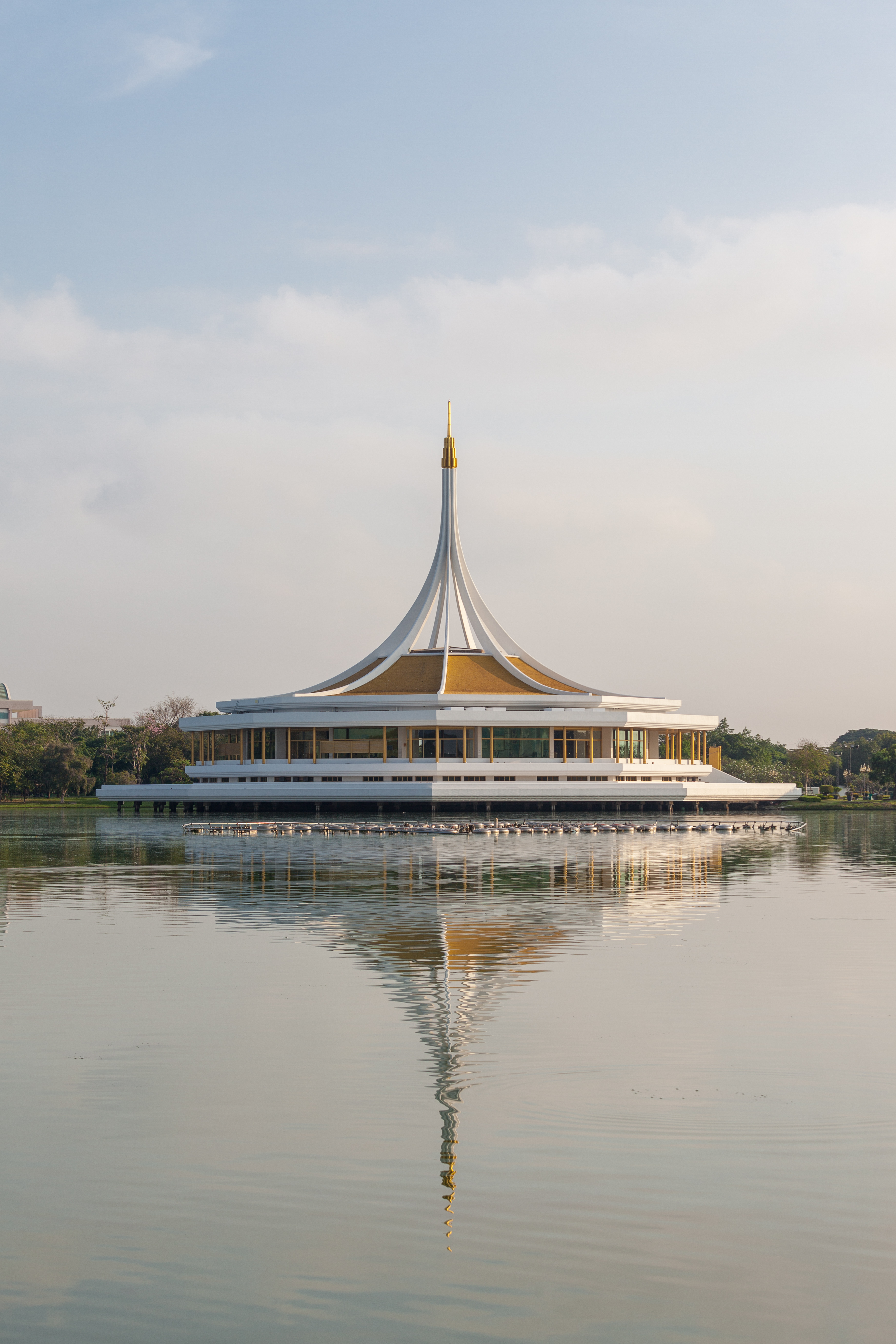 Rajamangala hall, Rama 9 Park, Bangkok.